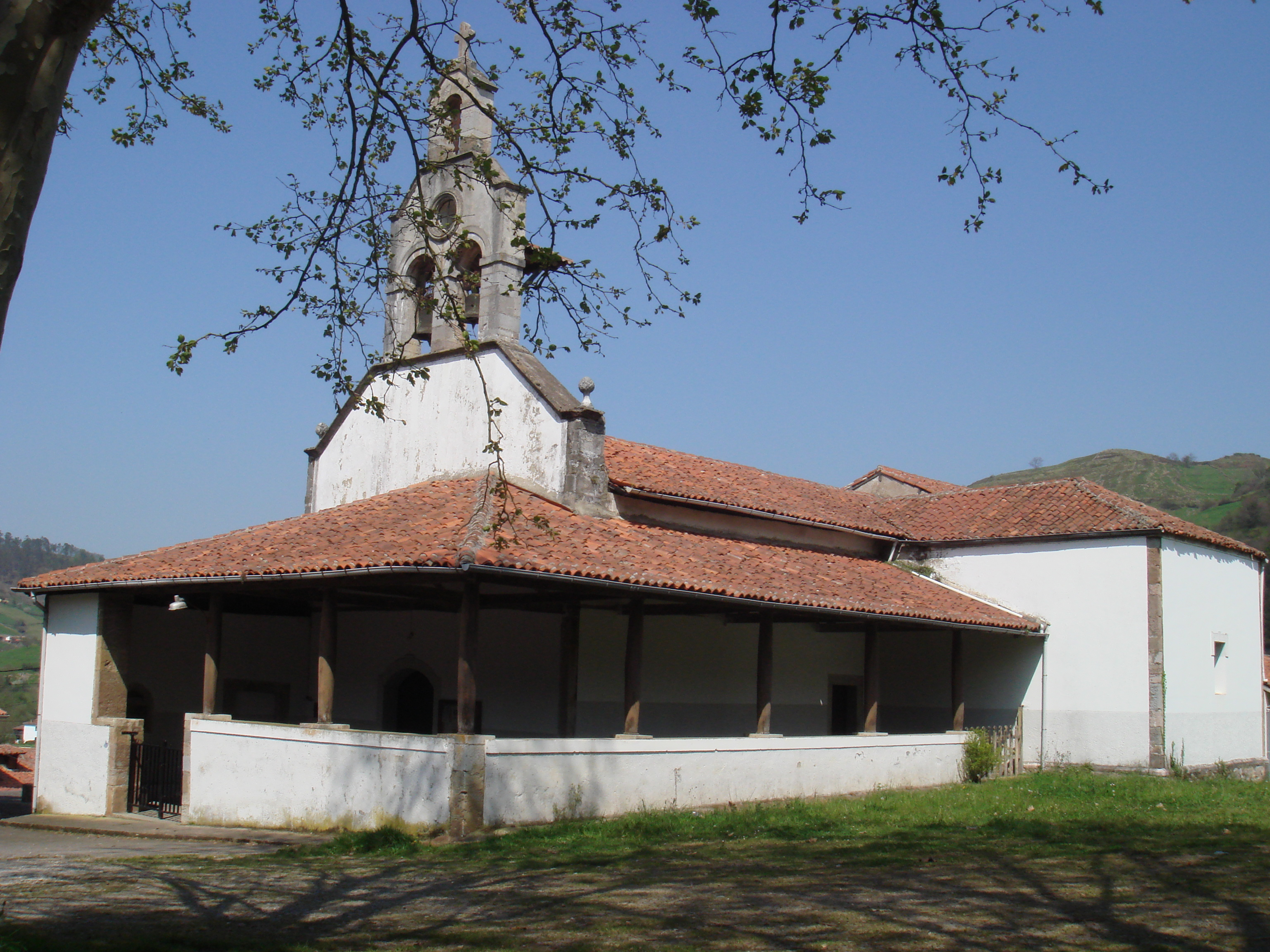 iglesia